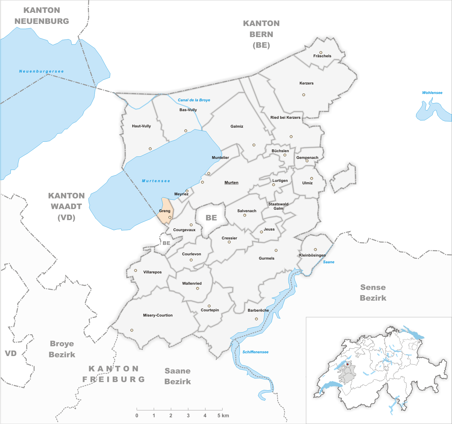 Municipality Greng